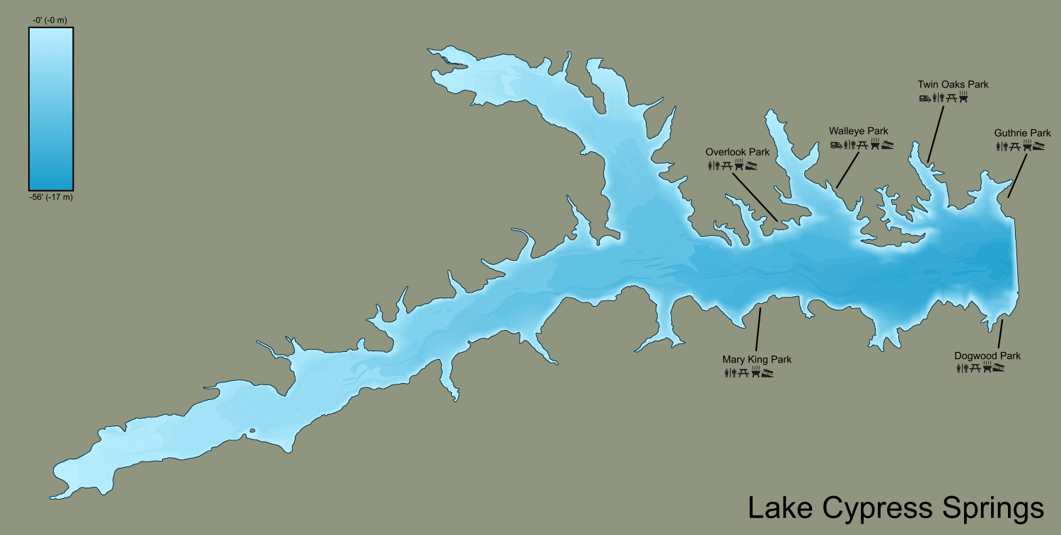 This is a bathymetric map of Lake Cypress Springs I created using publicly available information.